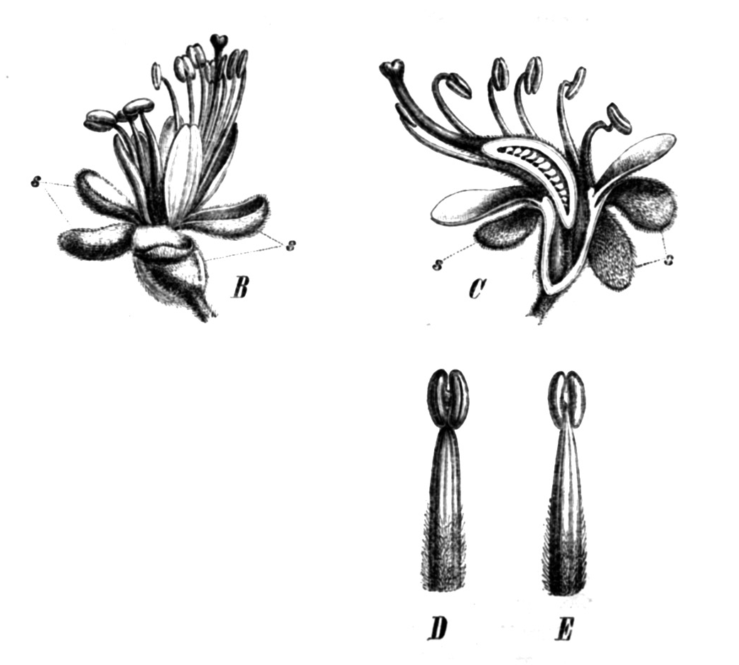 Illustration from book